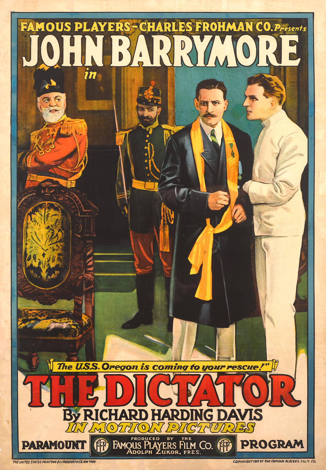 The Dictator is a 1915 American silent comedy film directed by Oscar Eagle and reputedly Edwin S. Porter. This is a lobby poster for the film.